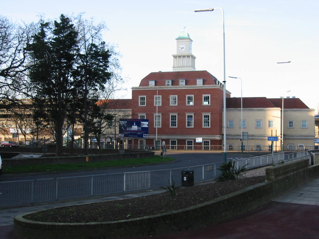 The market building at Romford, London.